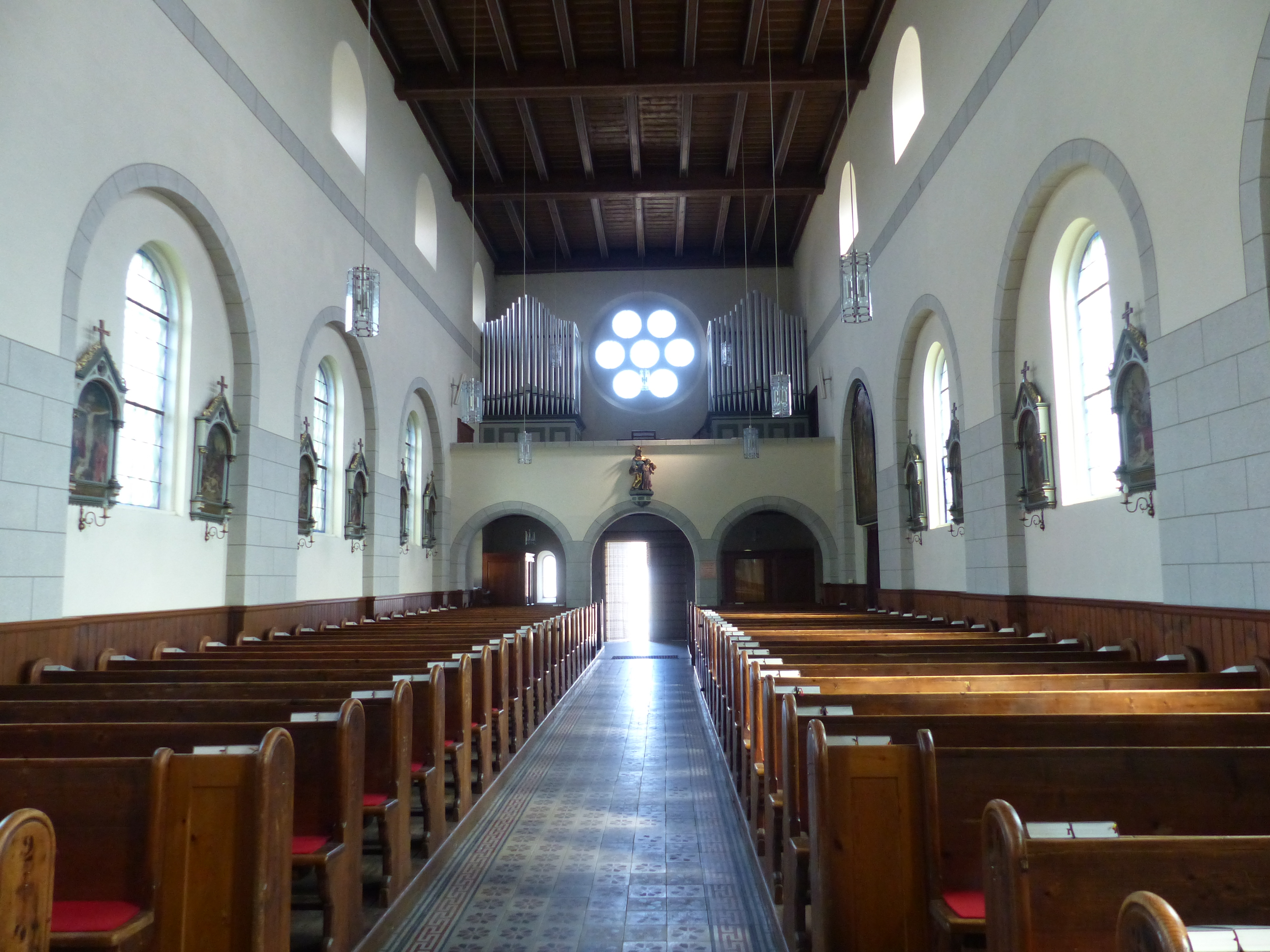 Gastern ( Lower Austria ). Saint Martin parish church - Interior.